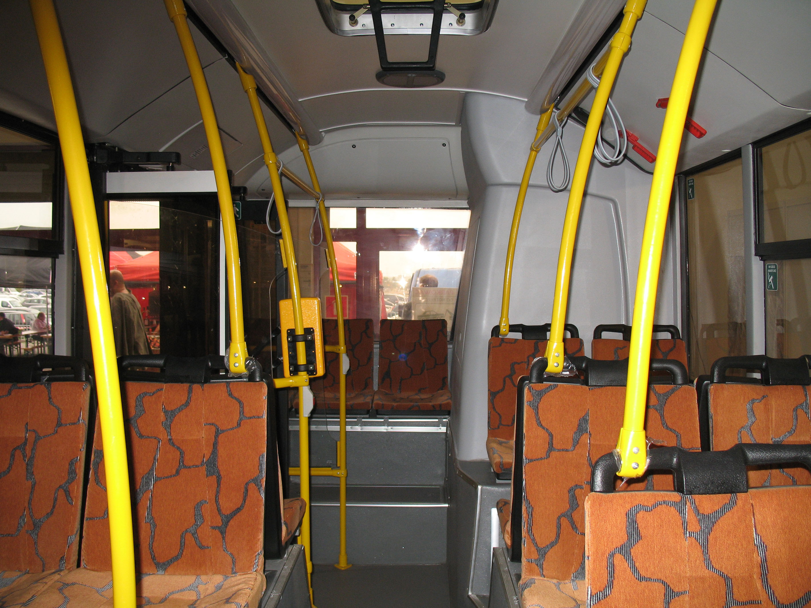 MAZ 203 bus (reg. 8AB T 4383) in Kielce, Poland. Built 2011. Transexpo 2011.